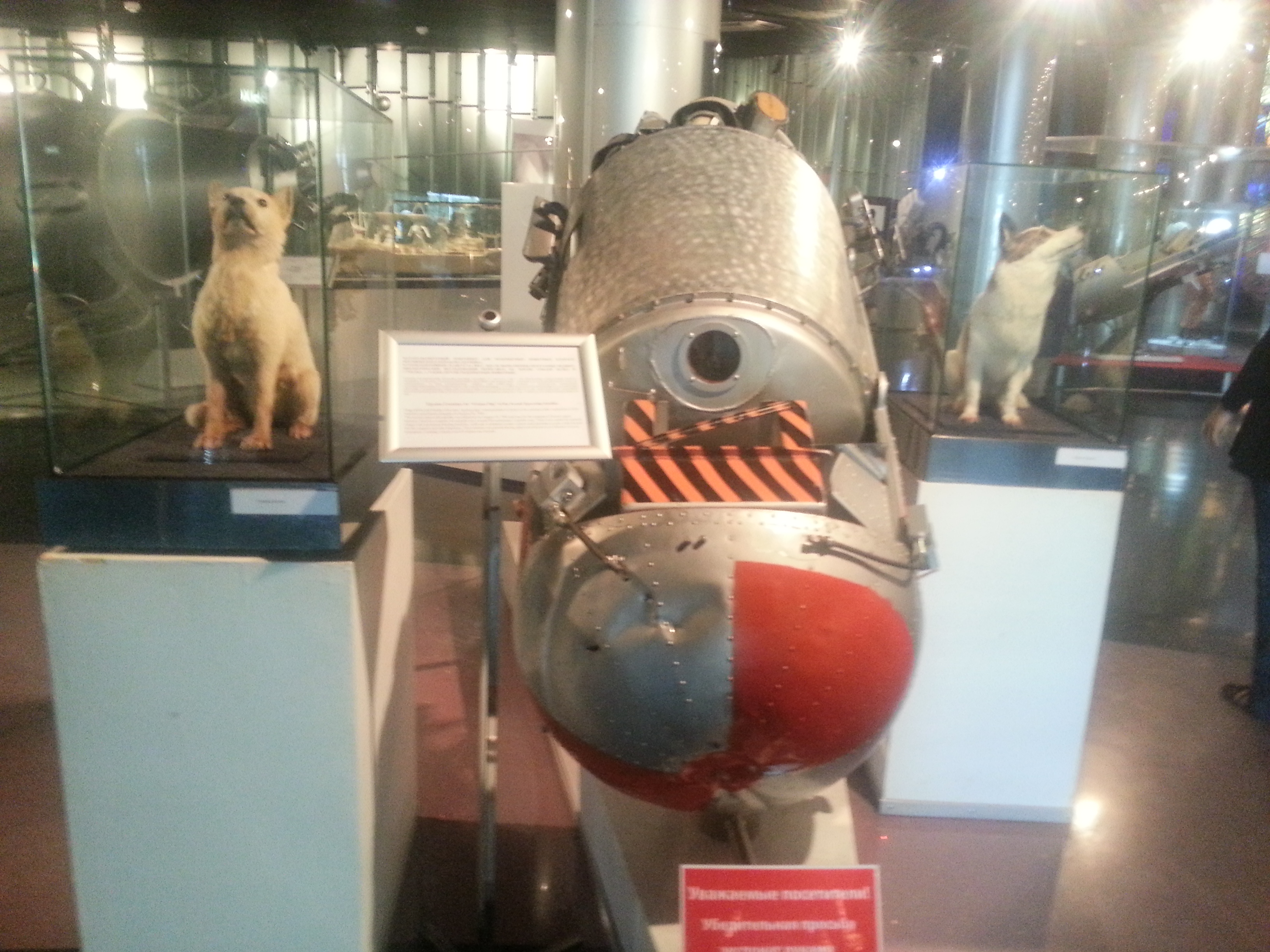 Belka and Strelka at the Monument to the Conquerors of Space, Moscow, Russia